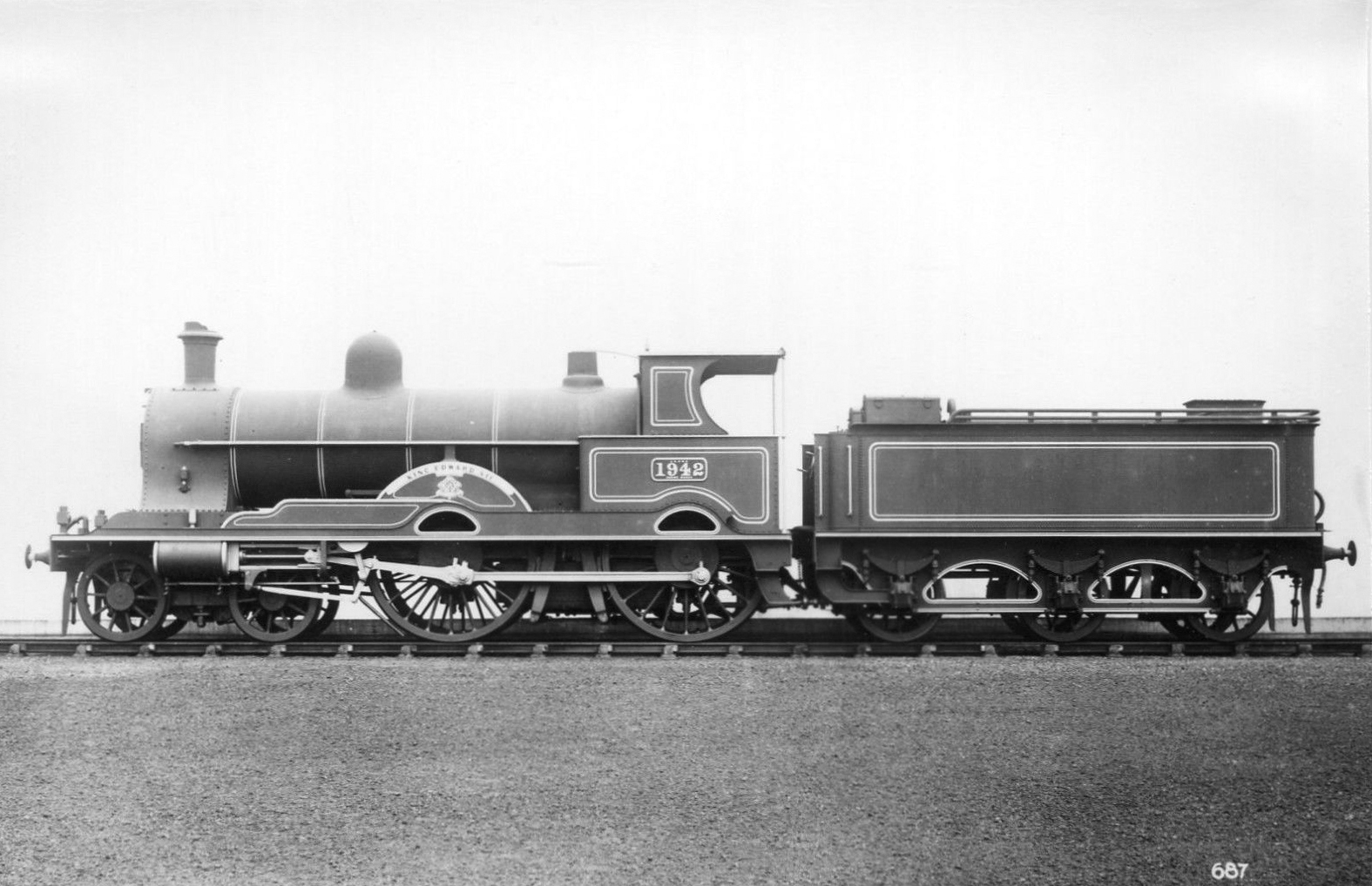 Photograph of LNWR engine No. 1942 'King Edward VII'